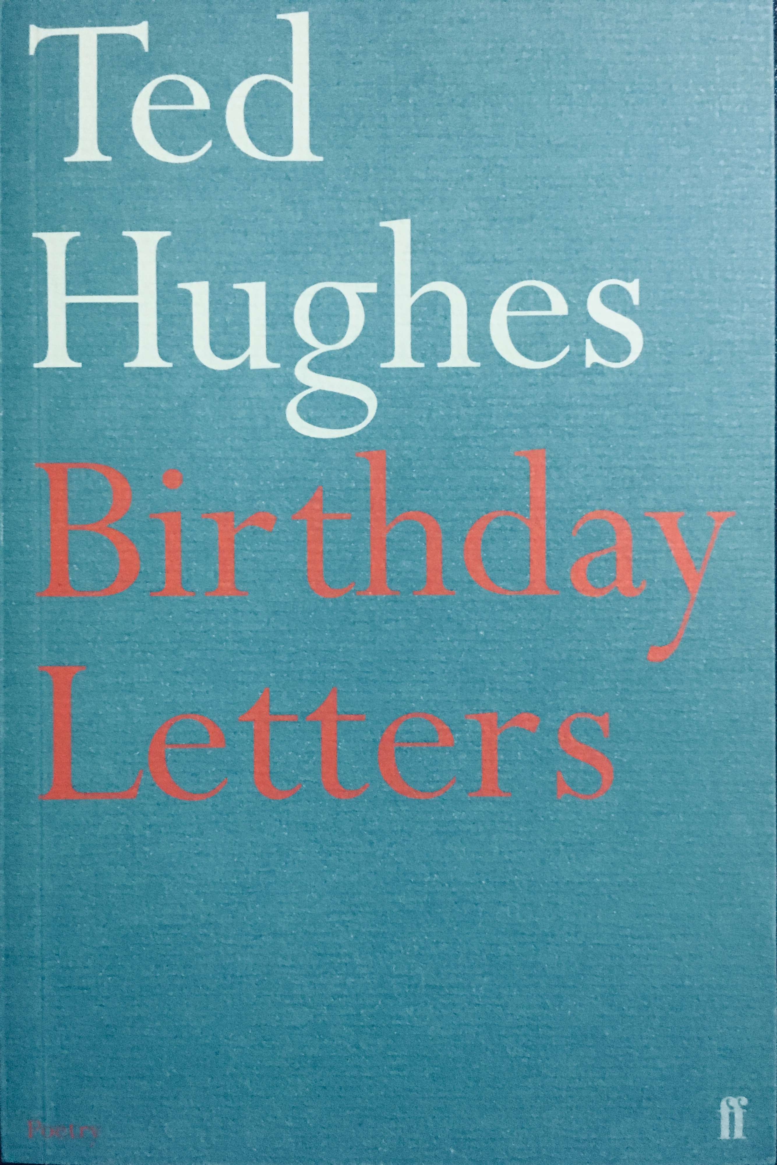 Book cover Birthday Letter 2002